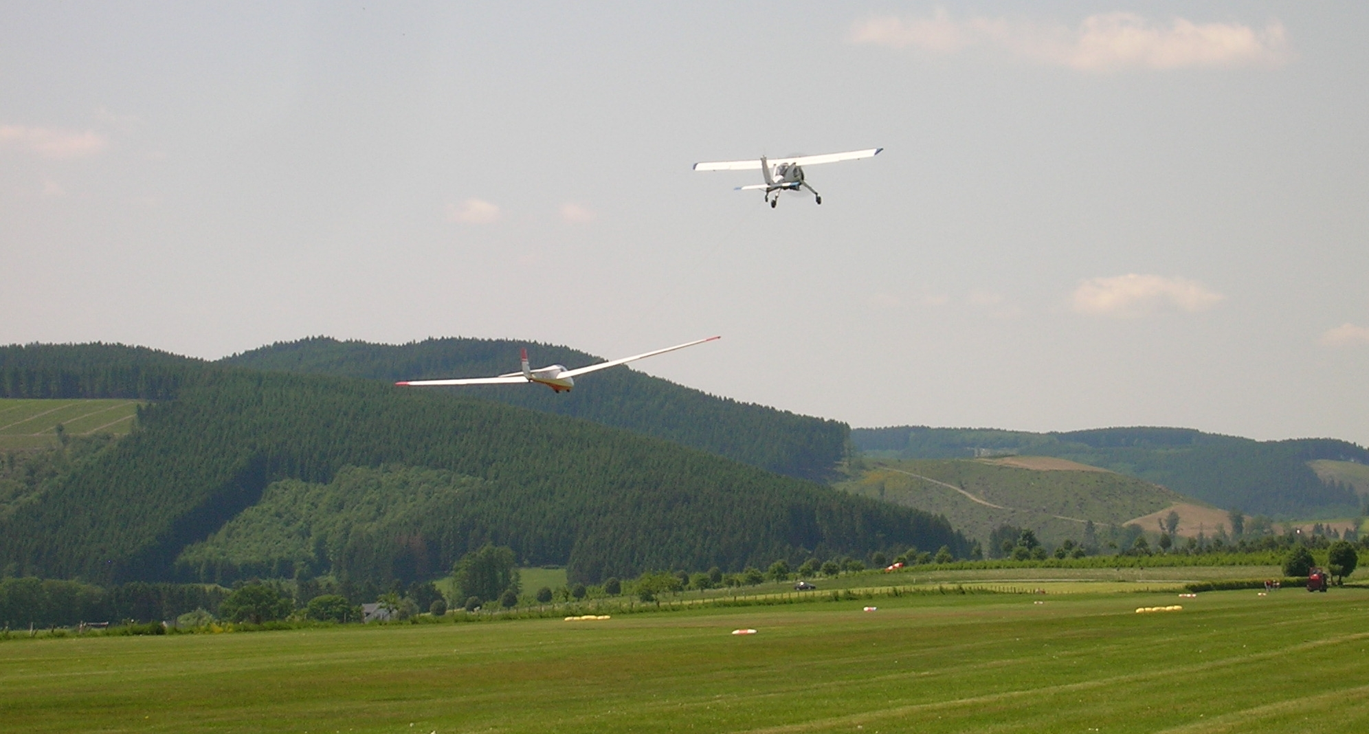 PZL 104 Wilga towing Schleicher ASK 13 in "low tow" position to avoid the wake from the tow-plane.